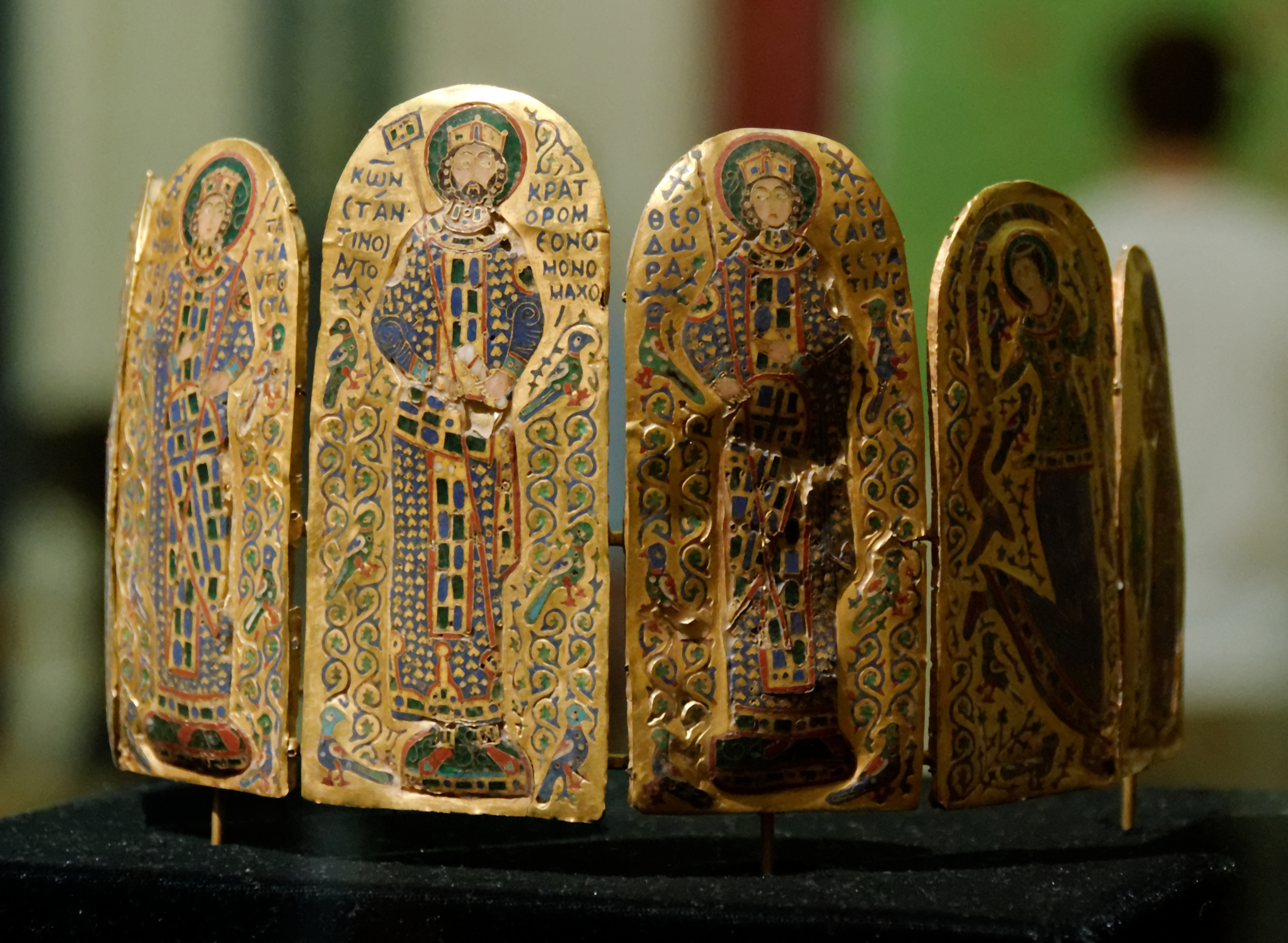 Monomachos crown. Byzantine cloisonné enamel plaques, probably parts of a crown. They represent the emperor Constantin IX Monomaque (1042-1056), his empress Zoe, her sister Theodora, twa dancing-girls and the personifications of the virtues of Truth and Humility. The two medalions show the two apostoles St Peter and Andrew